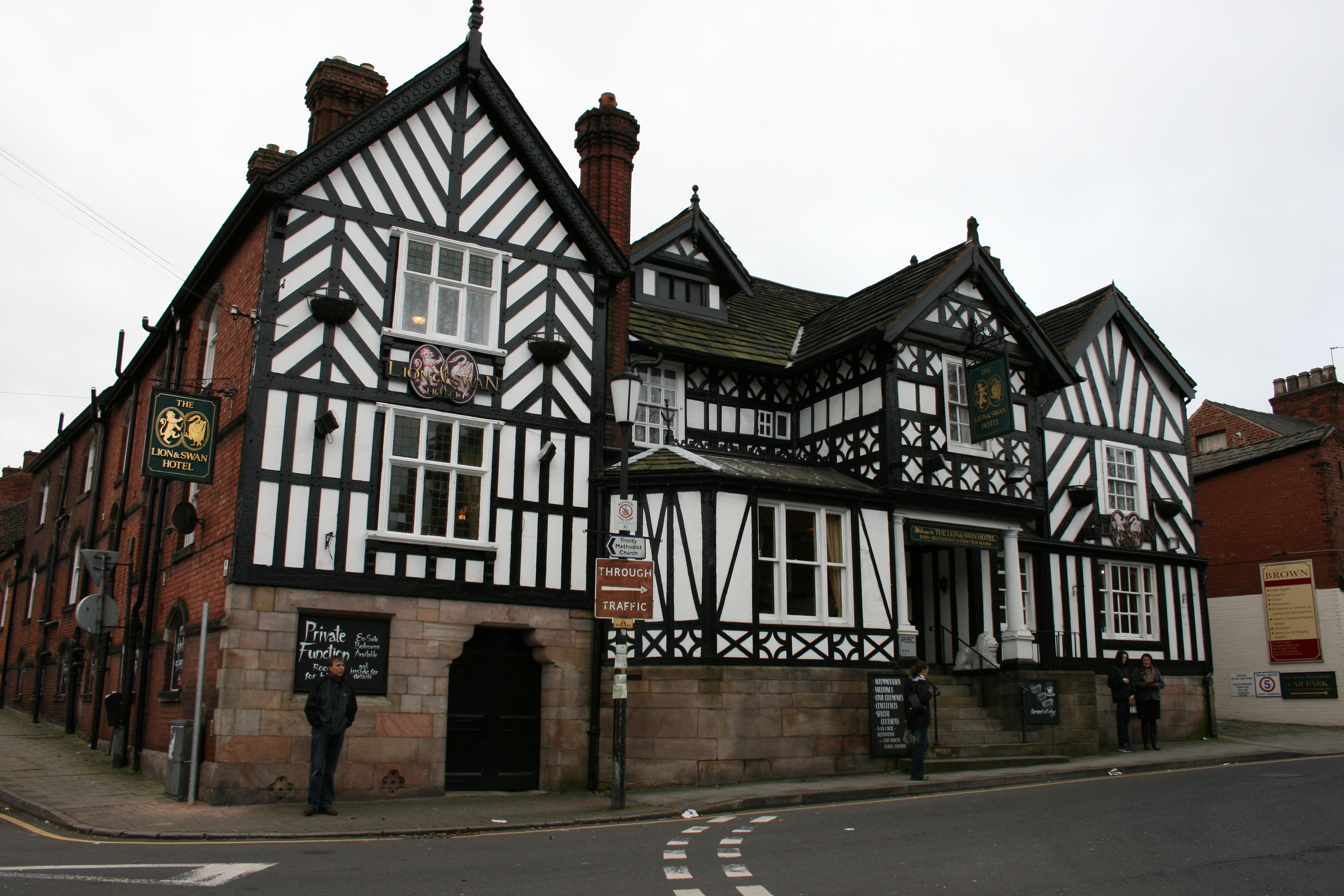 The Lion and Swan Hotel, Congleton, Cheshire, UK